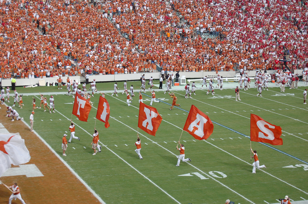 Texas entry in the 2007 Red River Shootout